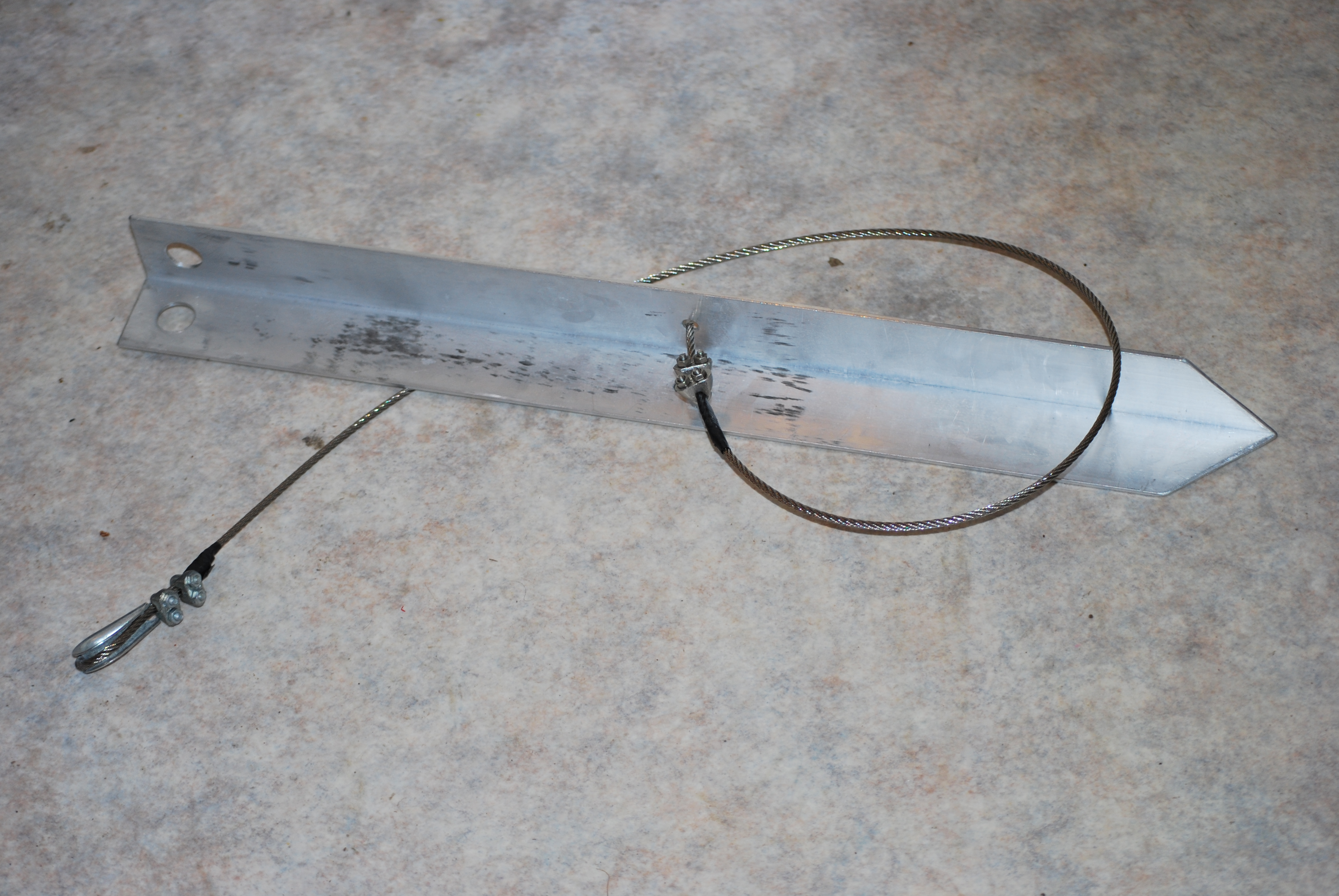 Snow Anchor